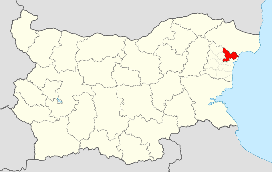 Location map of Aksakovo Municipality within Varna Province, Bulgaria. Equirectangular projection, N/S stretching 130 %. Geographic limits of the map: N: 44.4° N S: 41.1° N W: 22.1° E E: 28.9° E